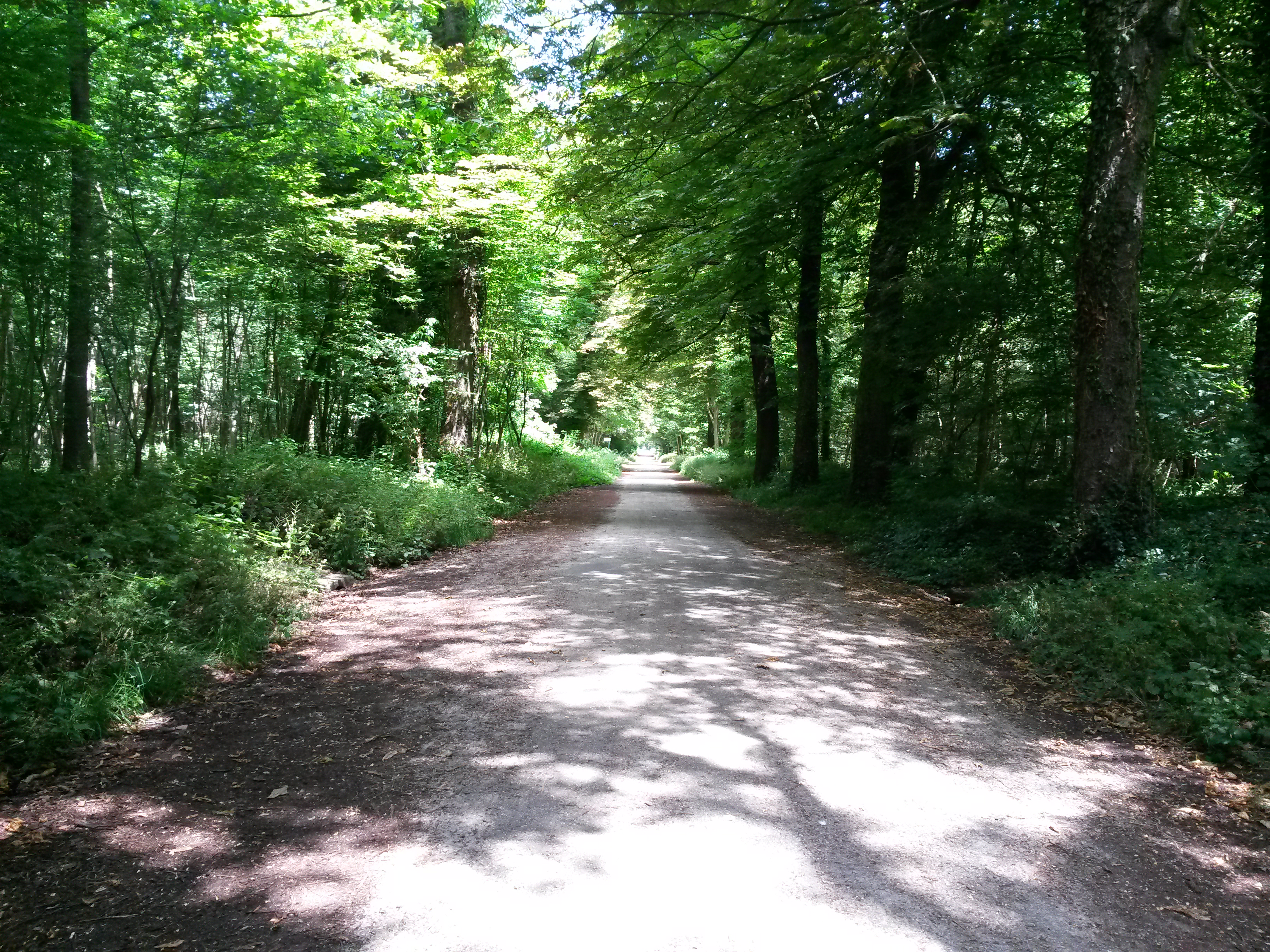 Route Saint-Louis, Bois de Vincennes, Paris 12ème, France